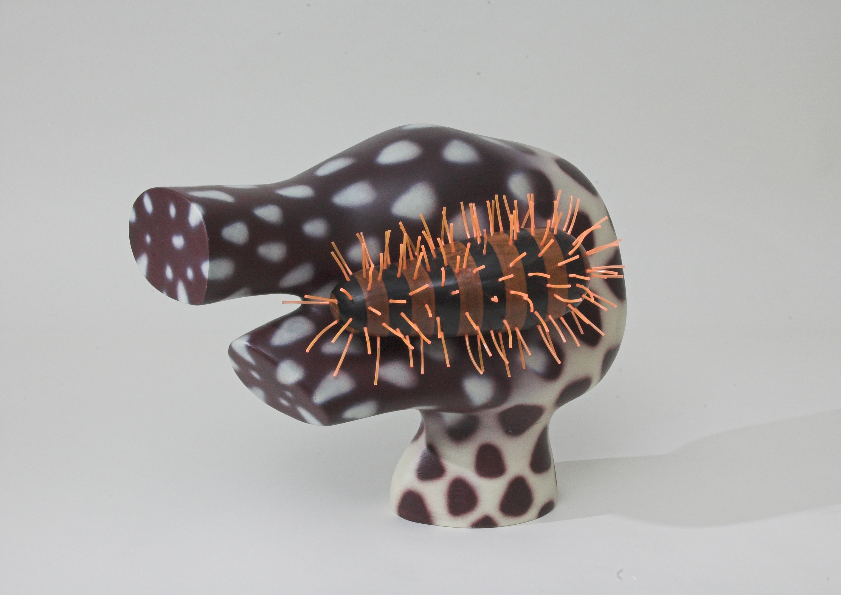 sculpture by Marina Schreiber in Germany